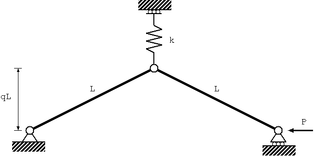 By Khurram Wadee, created using tgif.